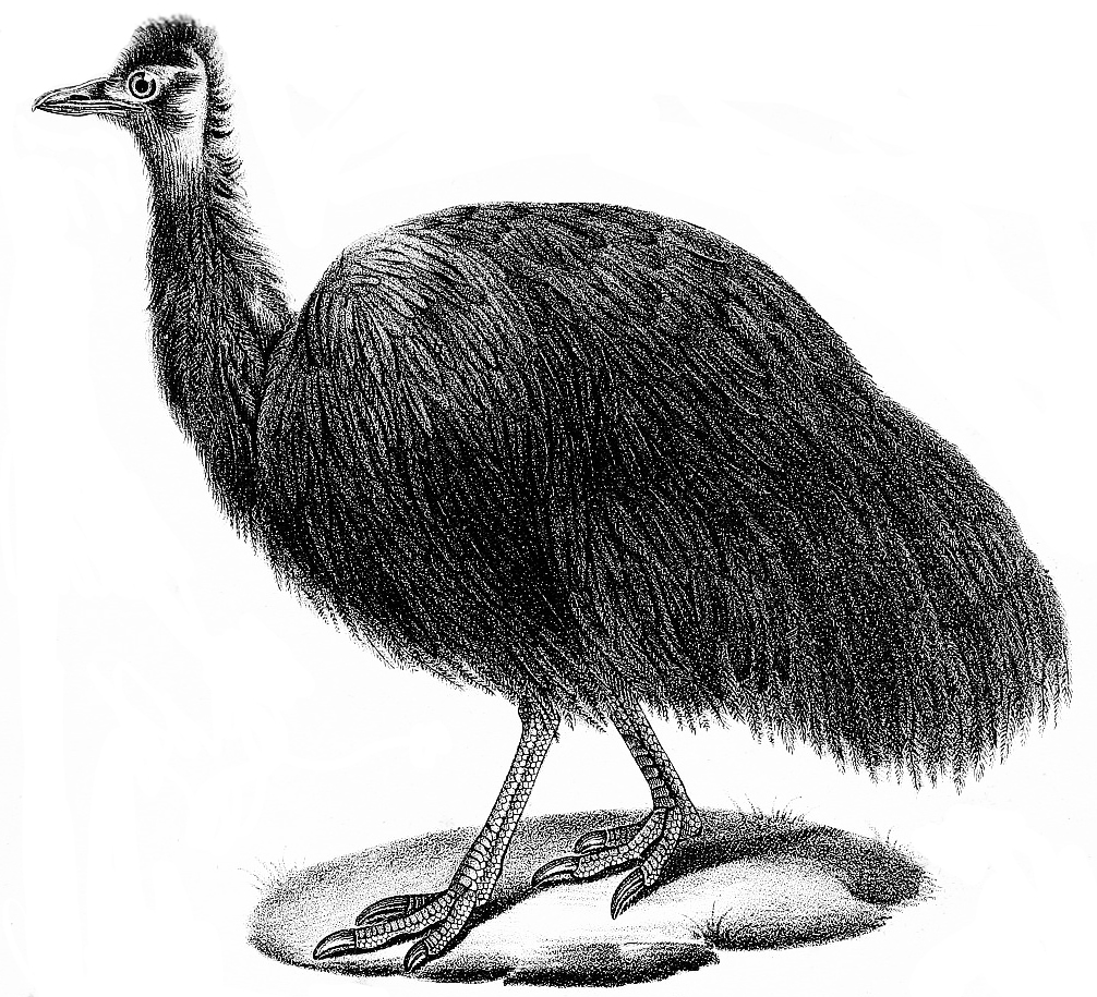 Illustration of the specimen of Dromaius ater in the Museum of natural History in Paris. From La galerie des oiseaux.